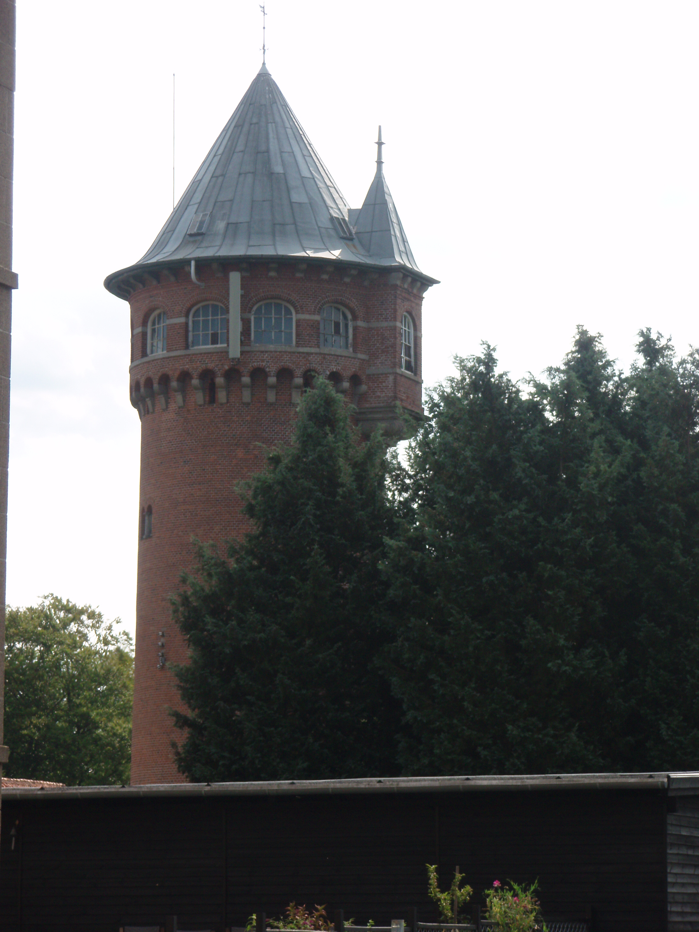 Water tower in Denmark